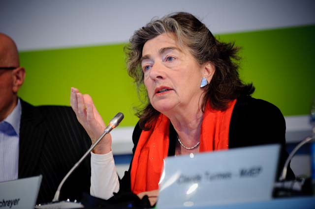 Foto: Stephan Röhl